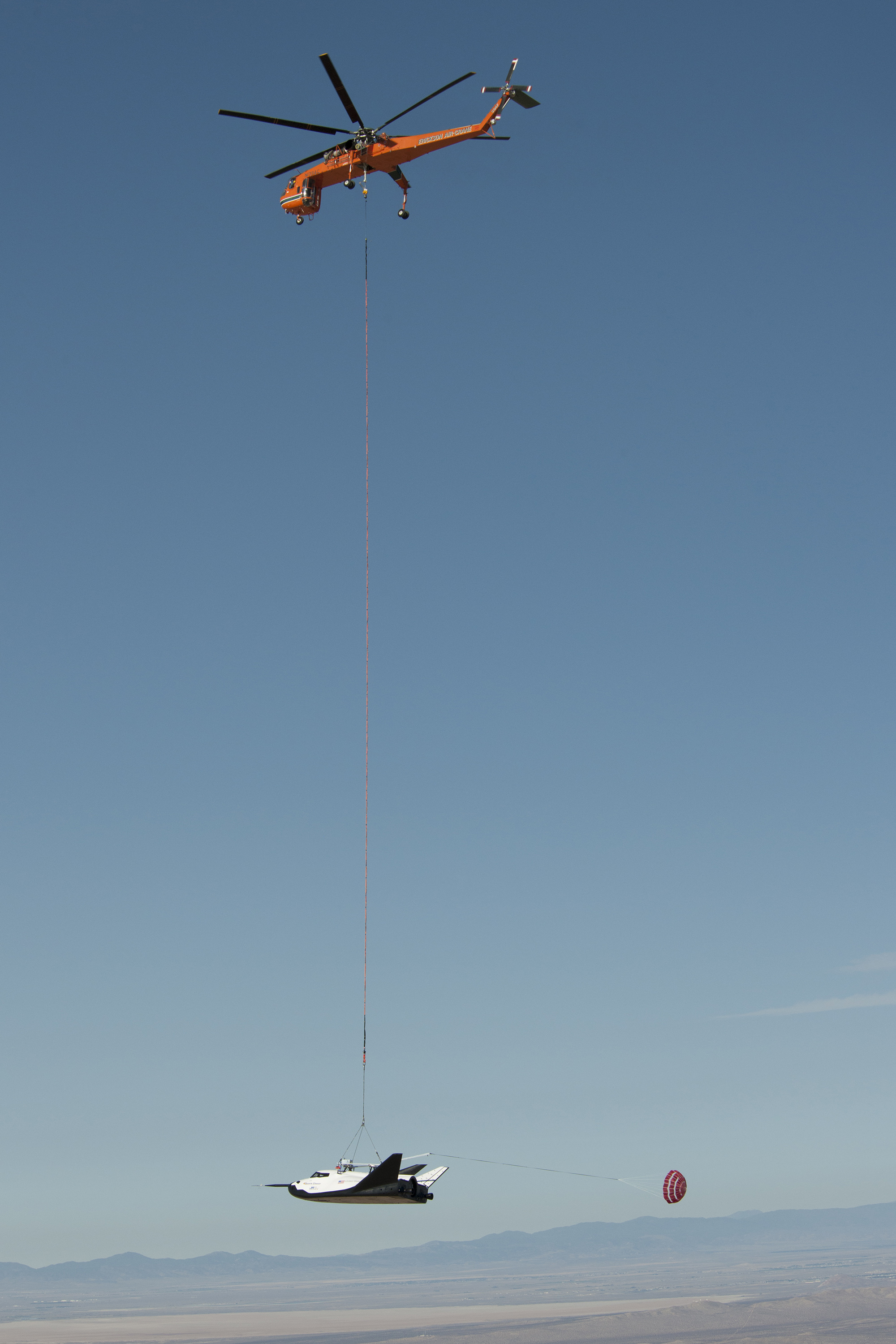 An Erickson Air-Crane helicopter lifts Sierra Nevada Corporation's Dream Chaser flight vehicle during a captive-carry flight test. The test was a rehearsal for free flights at Edwards later this year. The spacecraft is under development in partnership with NASA's Commercial Crew Program. Although the spacecraft is designed for crew members, the vehicle will not have anyone onboard during the free flights.